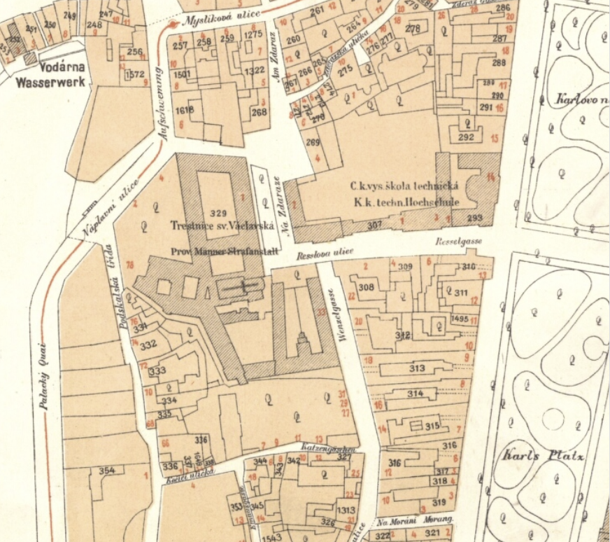 Saint Wenceslaus prison on Zderaz, New Town, Prague